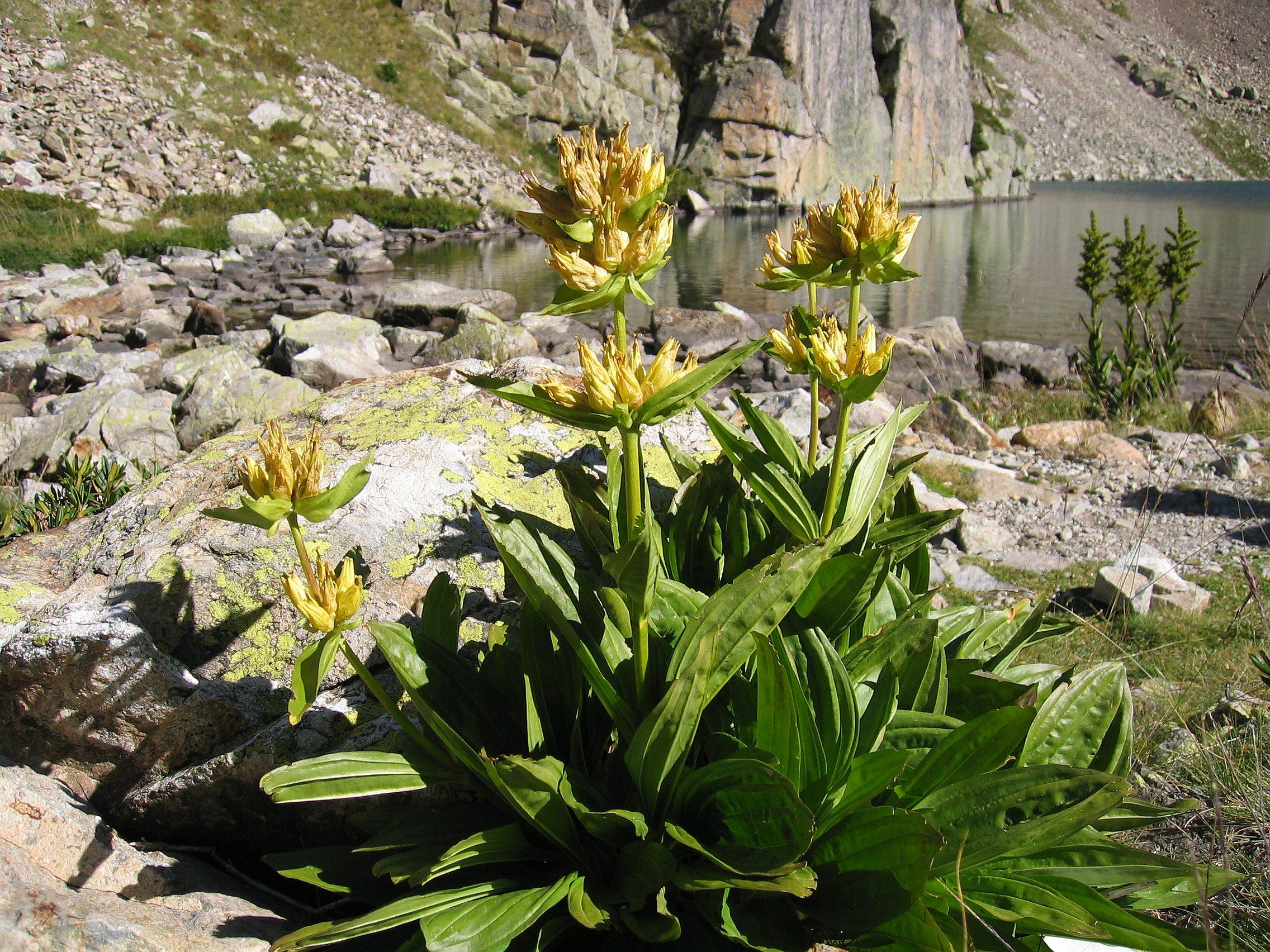 Gentiana burseri , Near Lacs d´Arriel ~2000 m, Pyrenees, Spain